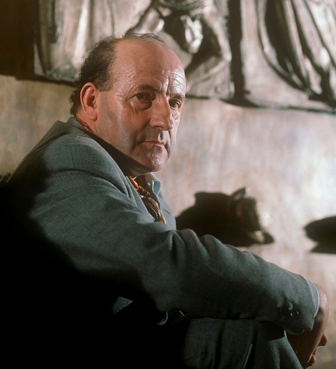 The Italian sculptor Giacomo Manzù, Giacomo Manzoni's pseudonym, poses for the photographer looking at the camera beside the Death's Door, a sculpture he made for Saint Peter's Basilica in Rome. Vatican City, 1964.